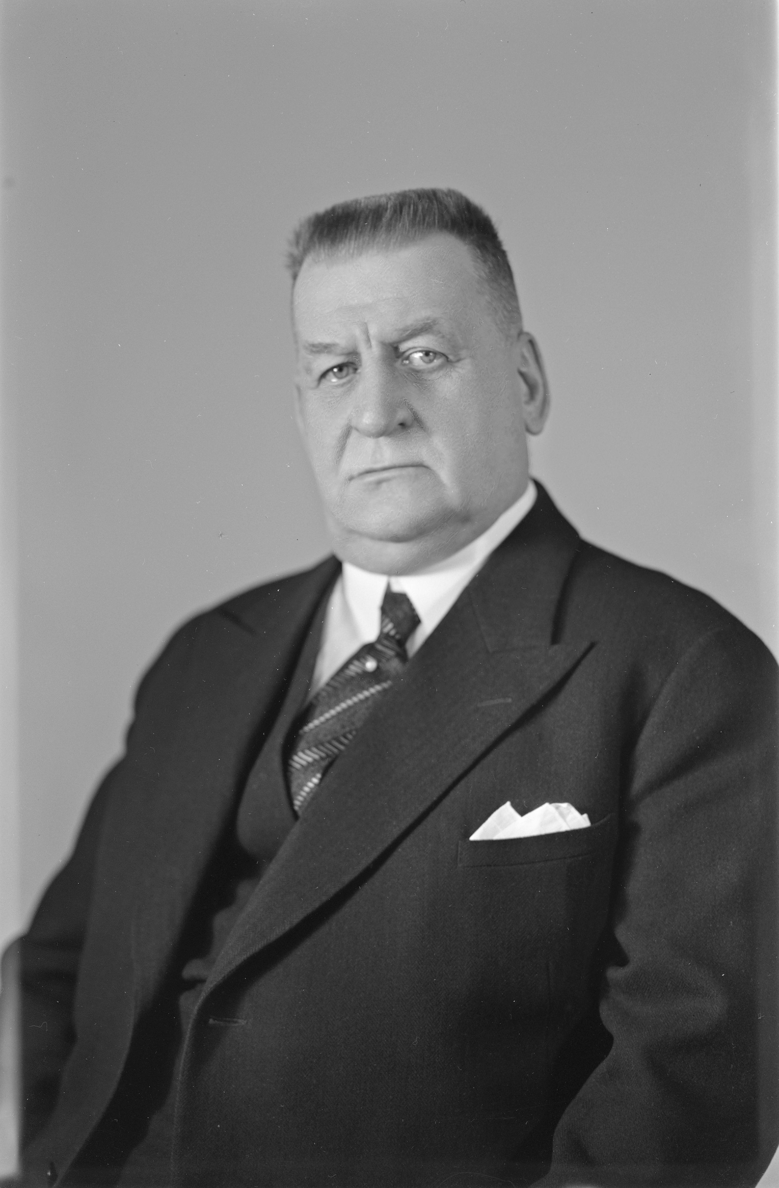 Photograph of the Finnish politician and lawyer Heikki Renvall (1872–1955).